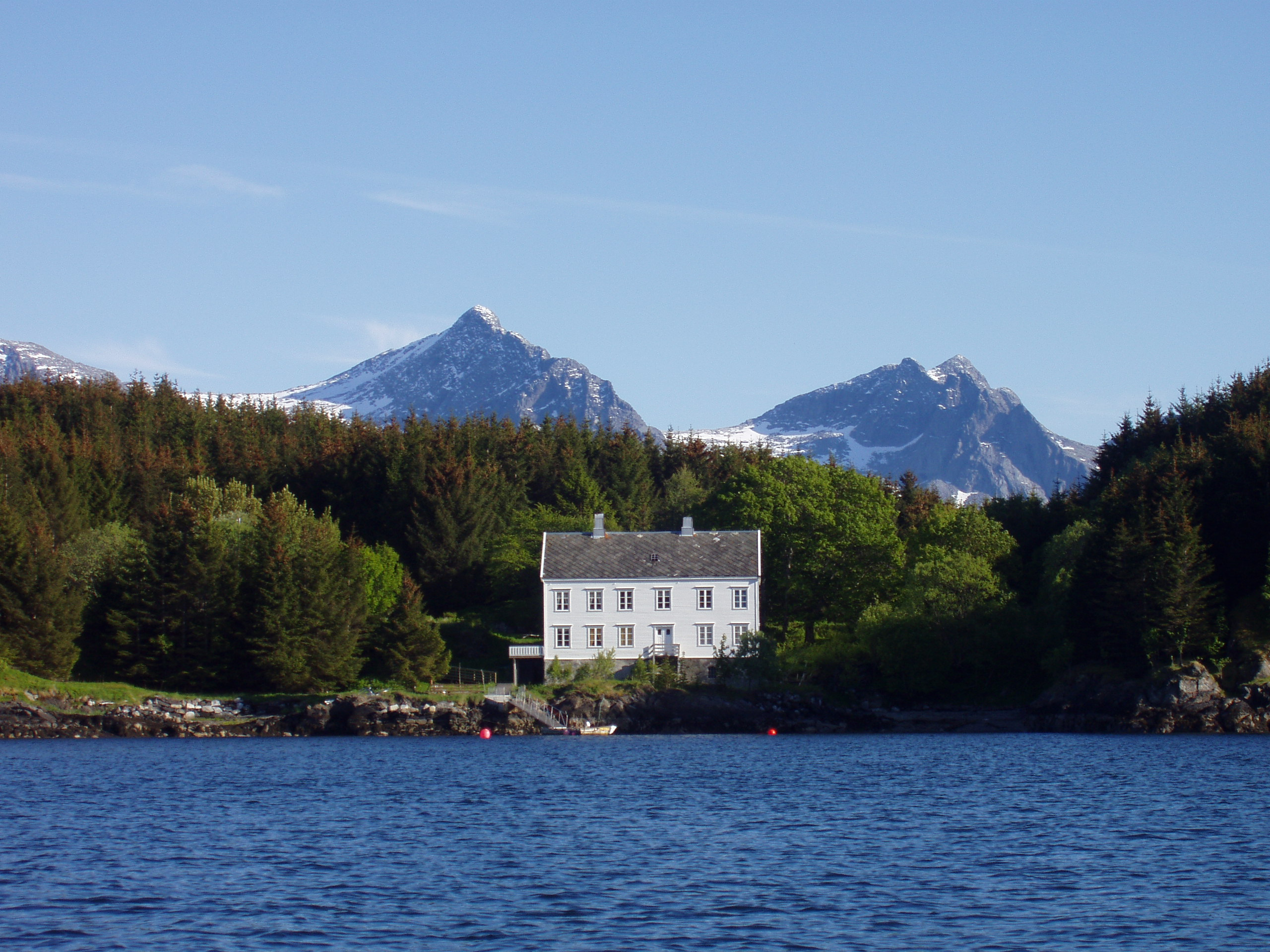 Lovøya in Helgeland, Norway, the old Inn and planted sitka spruce. In the background two og the mountains Seven Sisters.